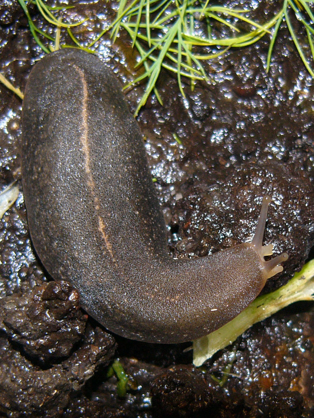 4.5 cm small (full length) slug Laevicaulis alte (Férussac, 1822).